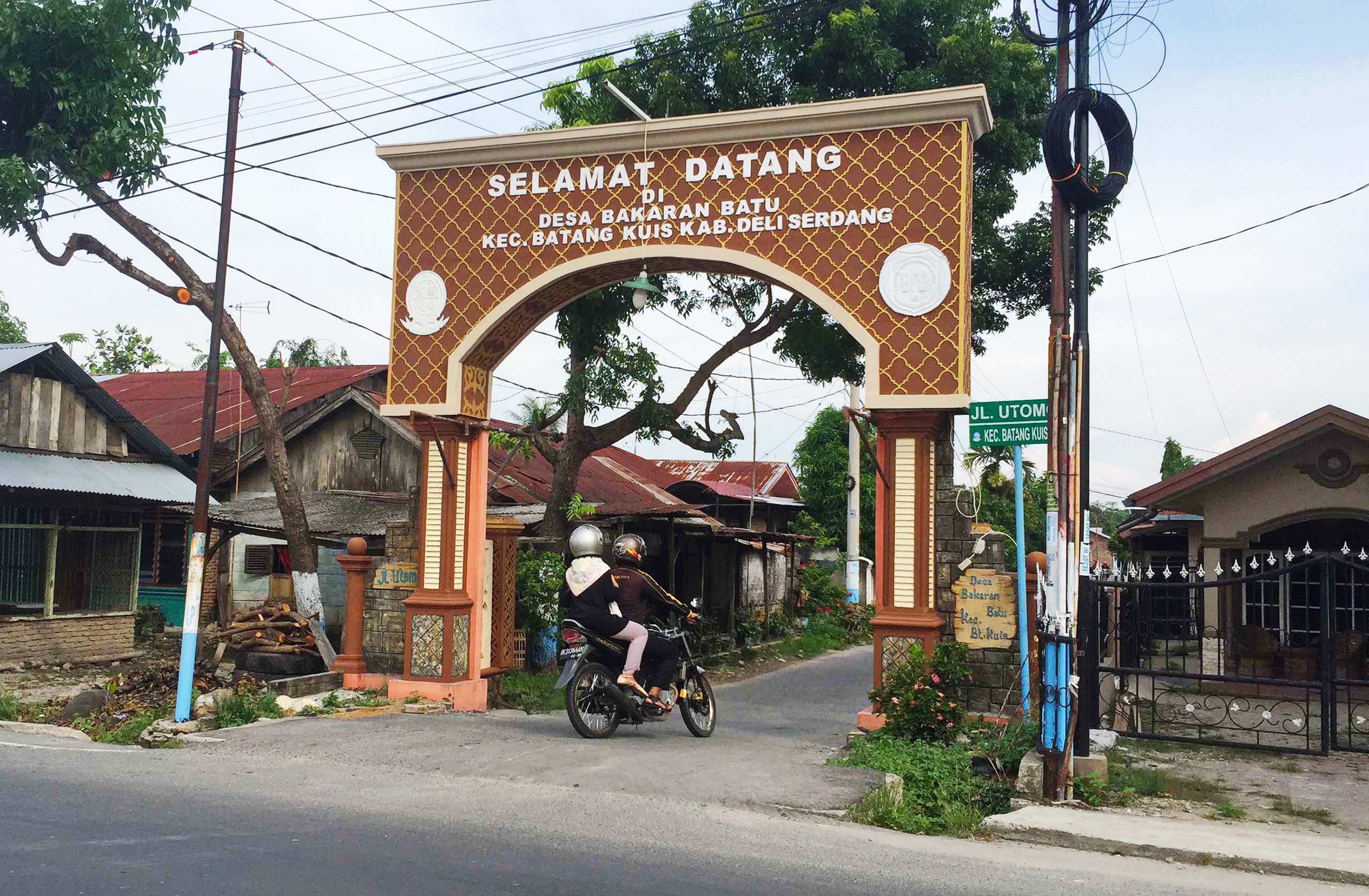 Welcome gate to Bakaran Batu, Batang Kuis, Deli Serdang